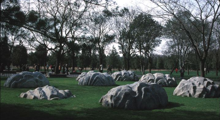 THE SEVEN-STAR STONE GROUP REPRESENTS THE SEVEN PEAKS OF TAISHAN MOUNTAIN, A PLACE OF HEAVEN WORSHIP IN CLASSICAL CHINA.